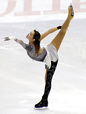 Shizuka Arakawa during the exhibition at the 2004 NHK Trophy.